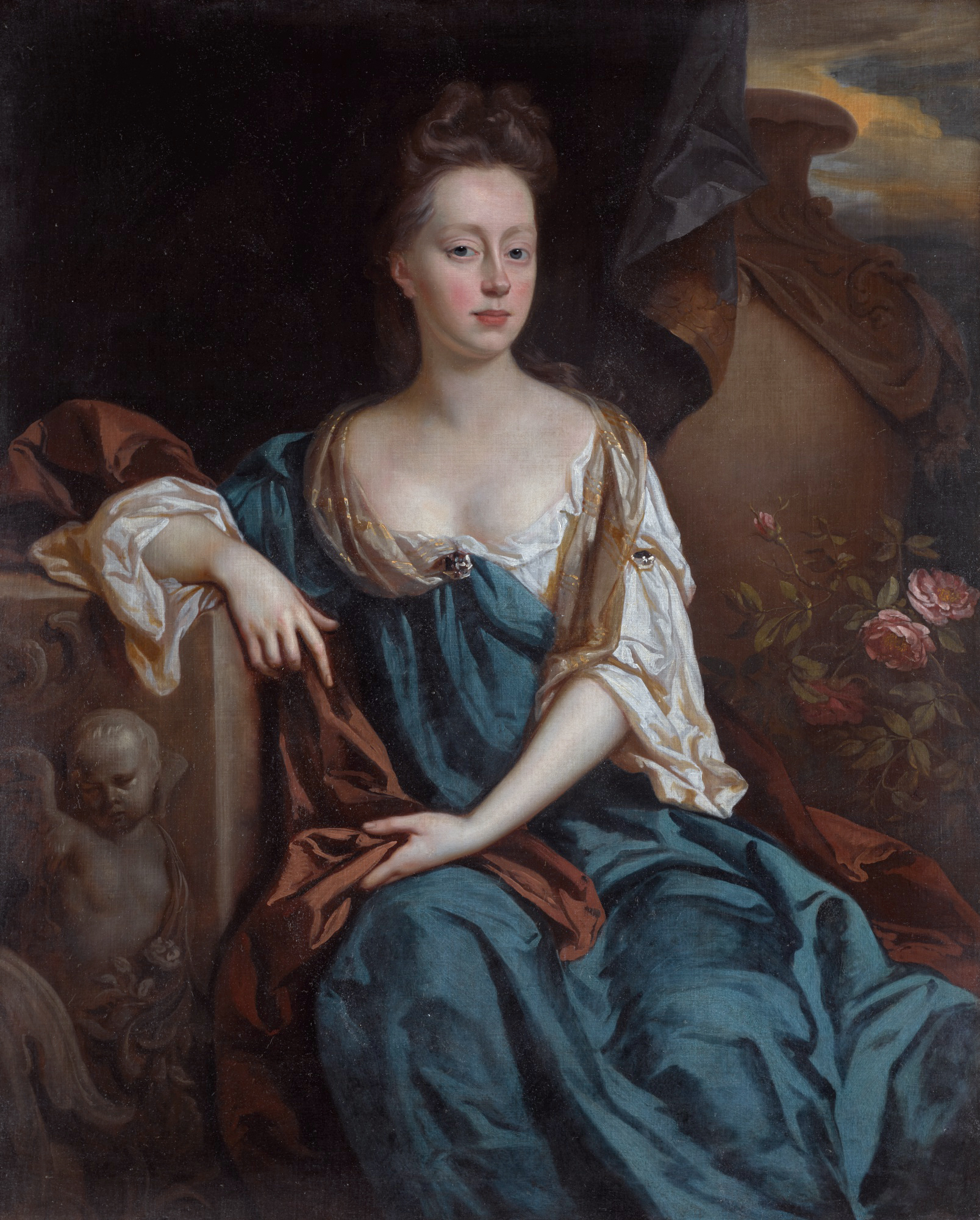 Alice Brownlow née Sherard (1659-1721) oil on canvas 126.2 x 102 cm